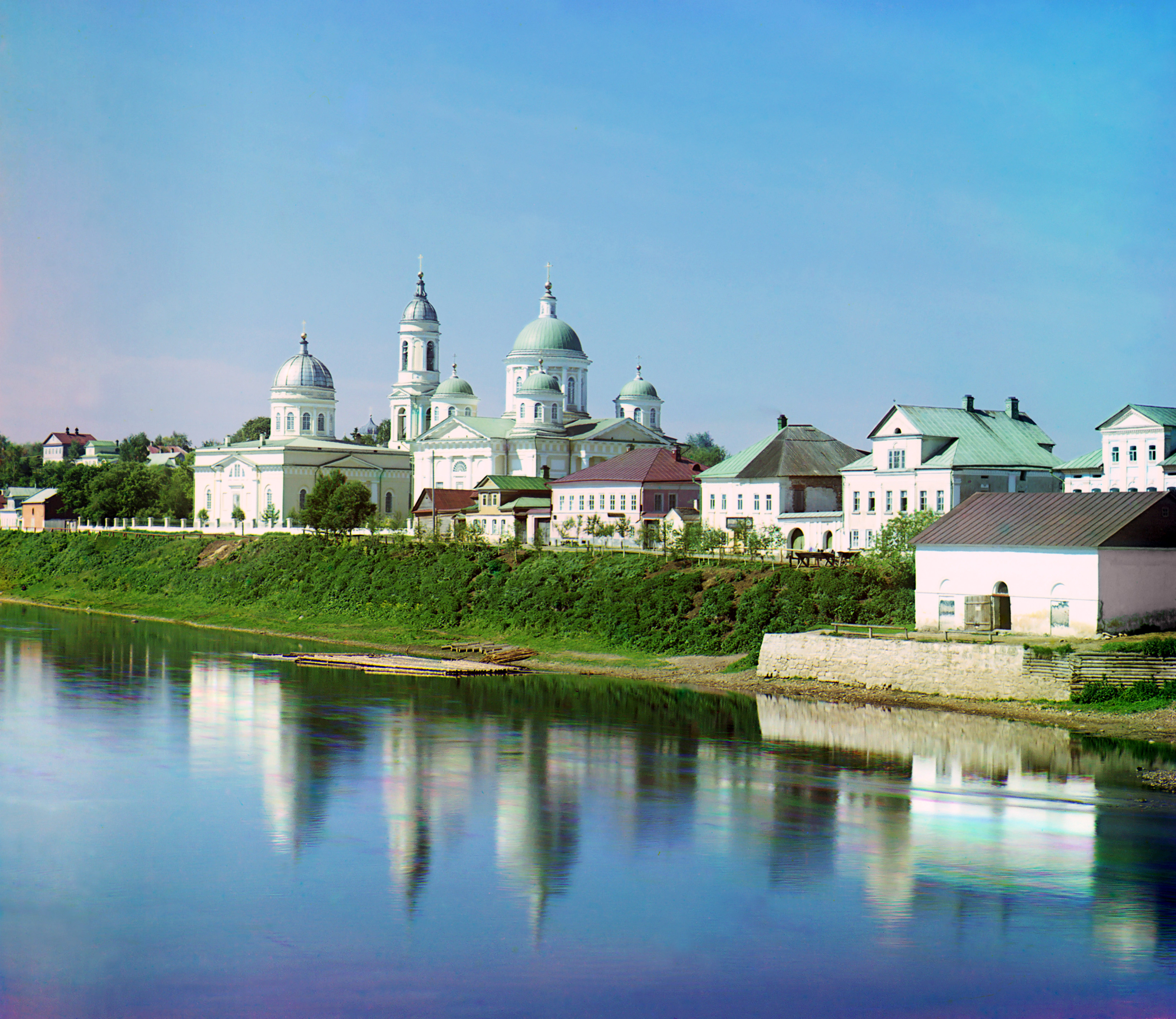 Twenty-sixth in the series of digital renderings of early color separation photographs by Sergei Prokudin-Gorskii. Cathedral of the Transfigured Saviour and the Church of the Entry into Jerusalem, Torzhok. From the album: Views along the upper Volga River, from its source in the Valdai Hills to Kalyazin, Russian Empire, 1910. From the Prokudin-Gorskii Collection at the U.S. Library of Congress. More pictures by Sergei Prokudin-Gorskii | More pictures of the Russian Empire [PD] This picture is in the public domain.